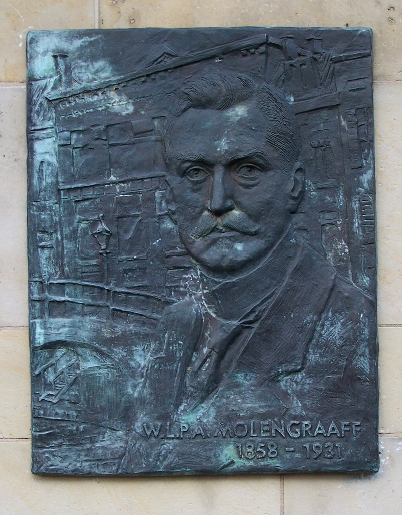 A Relief of Prof. Mr. W.L.P.A. (Willem) Molengraaff, made by Amiran Djanashvili (creation of the statue itself) and Jeroen Hermkens (design of the picture) in 2004. In assignment of Wijn & Stael Lawyers. It's placed against the wall of the Pietas building in Utrecht, Drift nr. 9.